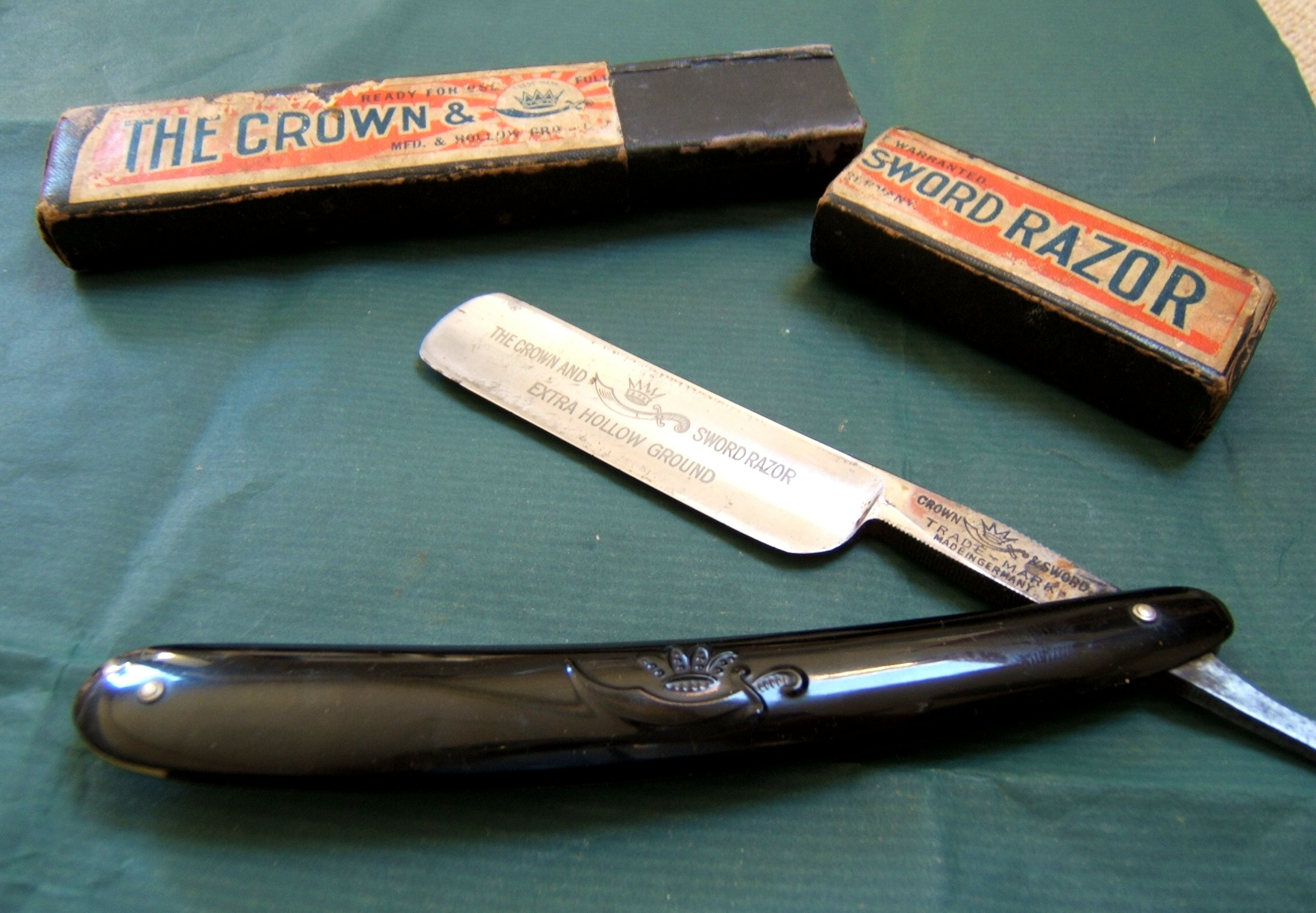 Sword Rasor